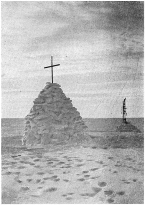 The grave of Scott, Wilson and Bowers